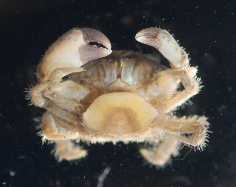 the castrating parasitic barnacle Loxothylacus panopaei, infecting Eurypanopeus depressus. Little Annemessex River, Somerset County, MD - 06/21/13. Photo by Robert Aguilar, Smithsonian Environmental Research Center.